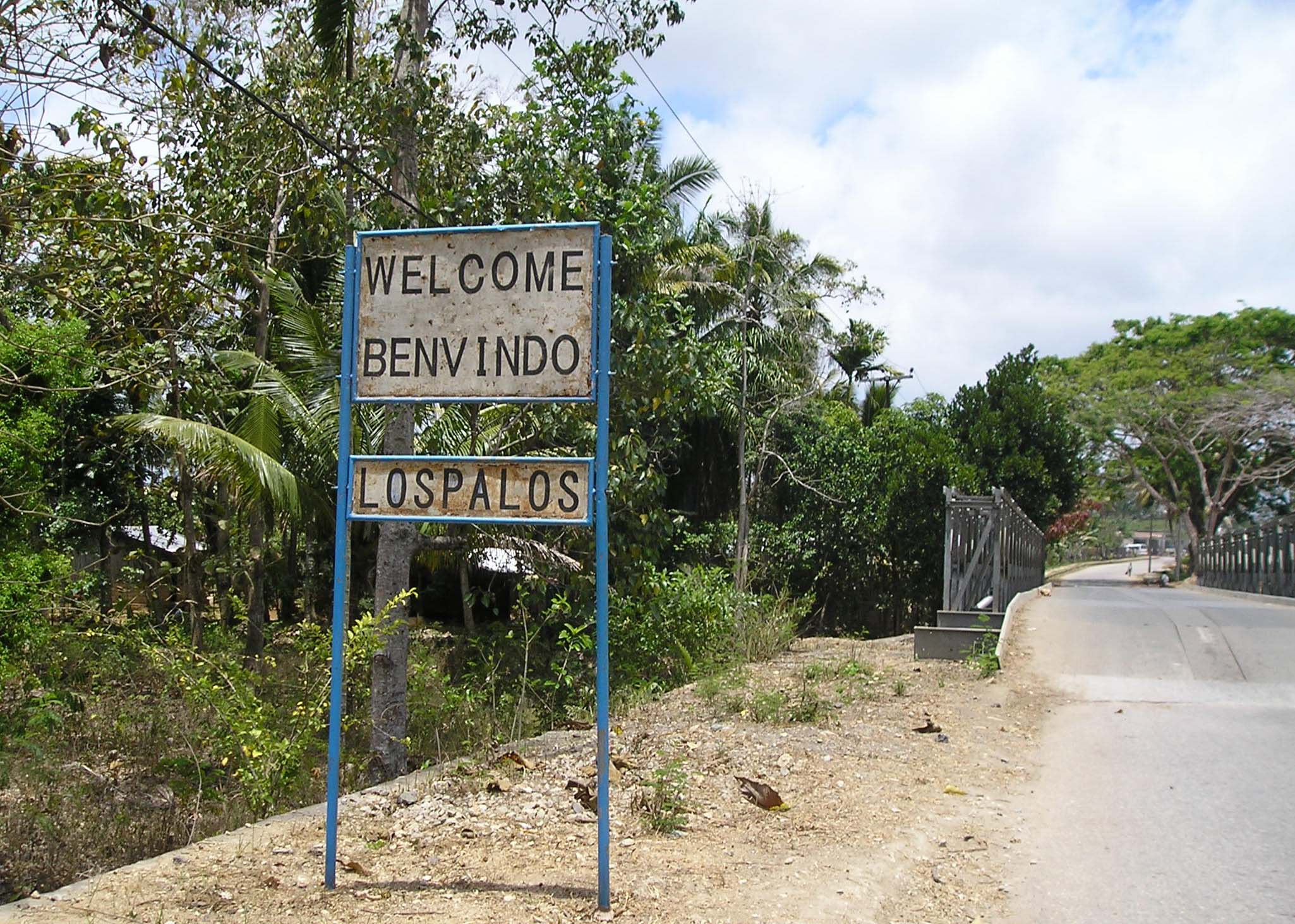 Lospalos sign post, picture taken in October 2005 by Linda Wimetal